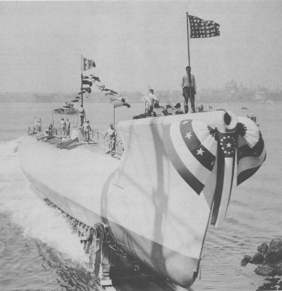 The United States Navy submarine USS Walrus (SS-437) is launched by the Electric Boat Company at Groton, Connecticut.